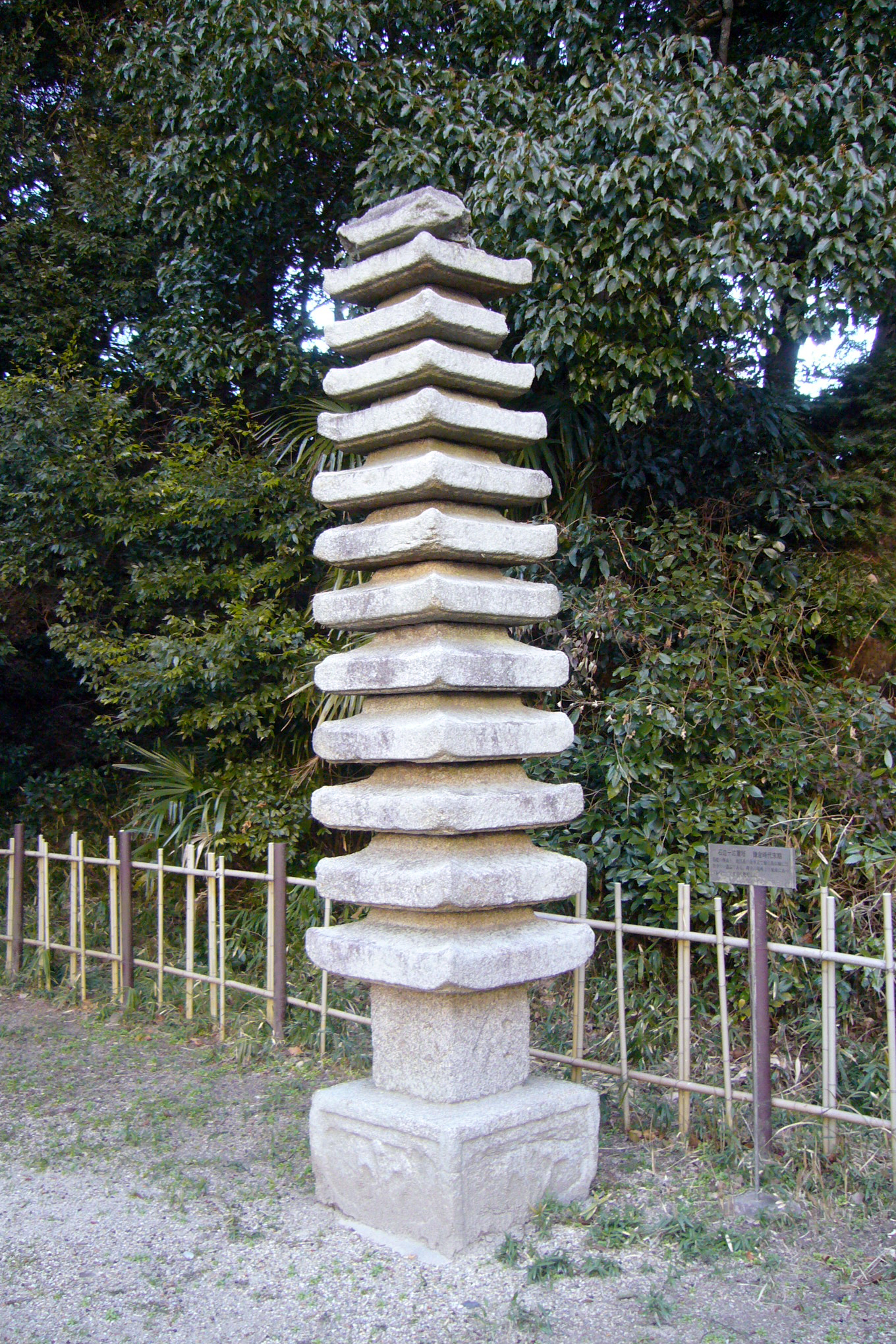 Goryō-jinja in Kizugawa, Kyoto prefecture, Japan